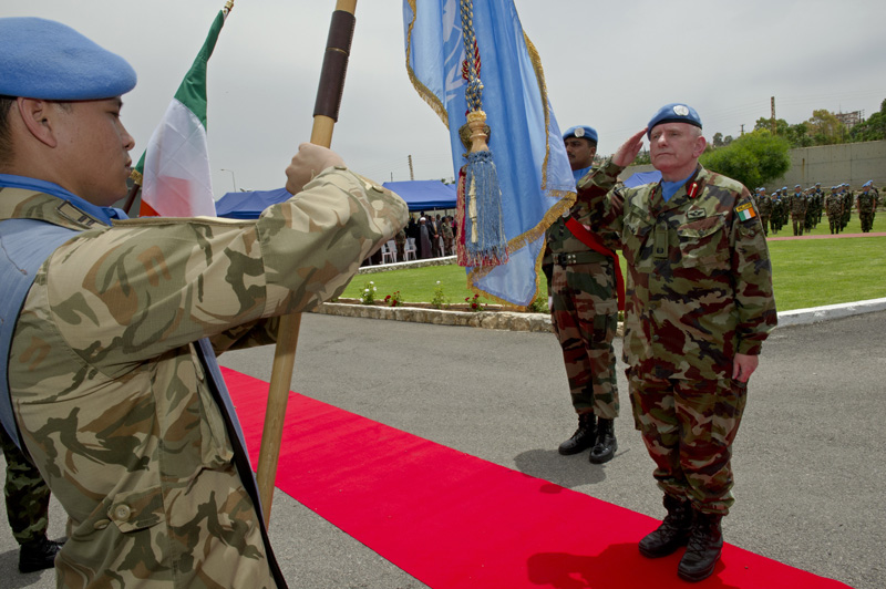 Celebrating International UN Peacekeepers Day Brig Gen Pat Phelan